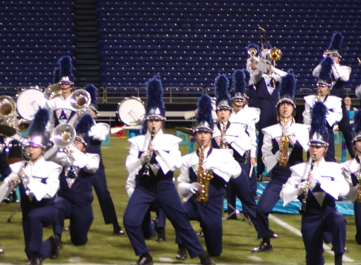 Rosemount High School marching band performing at the 2006 Youth in Music Band Championships